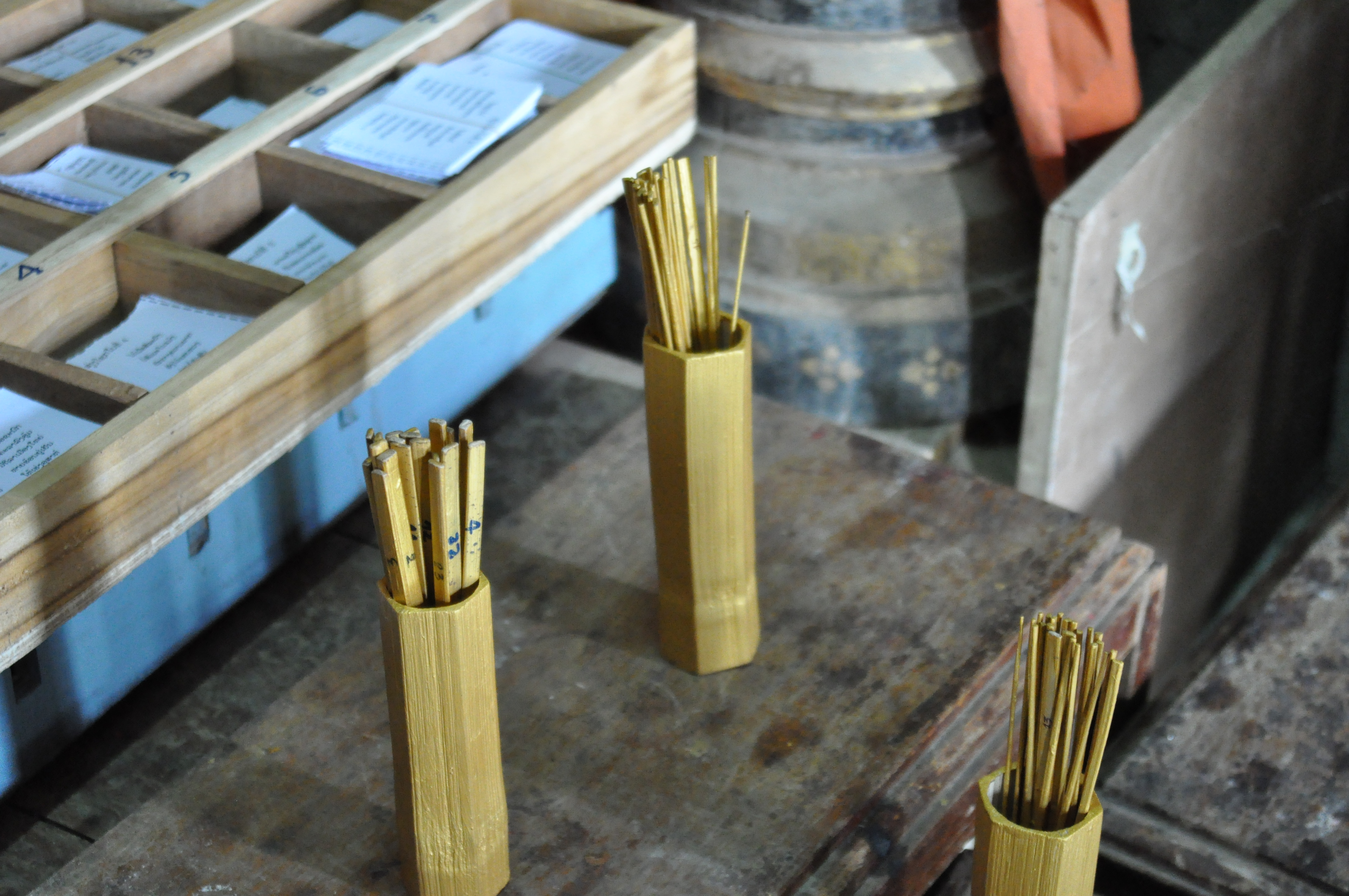 Another typically Buddhist feature- prayer sticks. You pick up a cup and shake it violently until one of the sticks falls out. That is your fortune. Match the number on the stick with the sheets of paper kept in the receptacle alongside and read your fortune or prediction. Buddhists have a lot of belief in this kind of thing. This was placed next to the Royal hearse in the shed at Wat Xieng Thong.(Luang Prabang, Laos/ Lao PDR, April 2014)